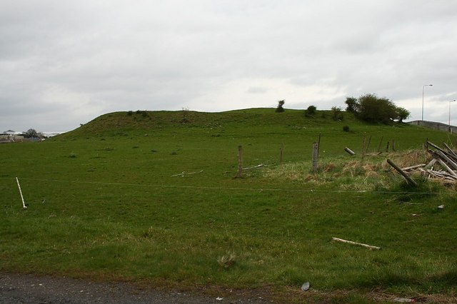 Ring Fort Well defined Ring Fort at Lynn, about 2Km S. of Mullingar.